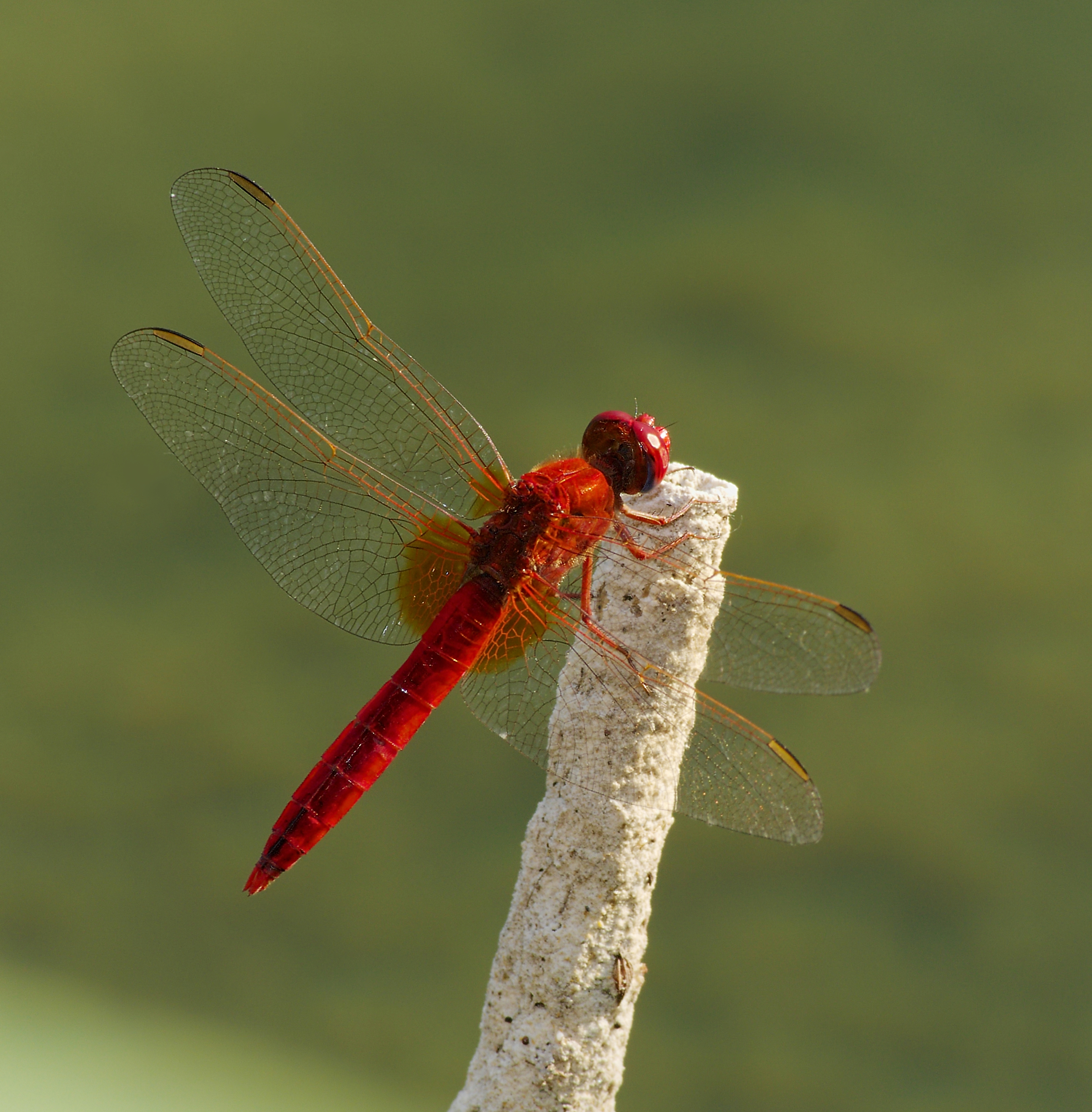 Scarlet dragonfly - Crocothemis erythraea, male. Taken by a fishing lake in Hüttenfeld, Lampertheim, Hesse, Germany.